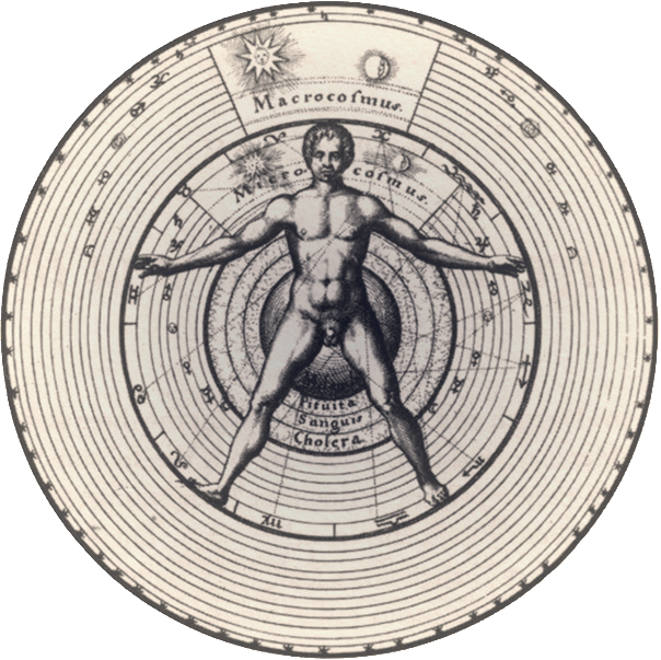 Adaption of Robert Fludd's 16th century woodcut of 'Vitruvian man'